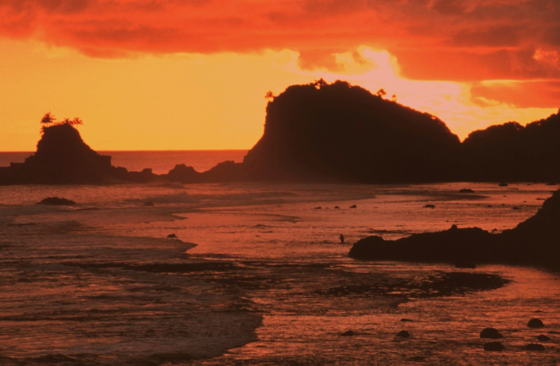 Sunset view at Fagatele Bay. American Samoa, Fagatele Bay NMS.